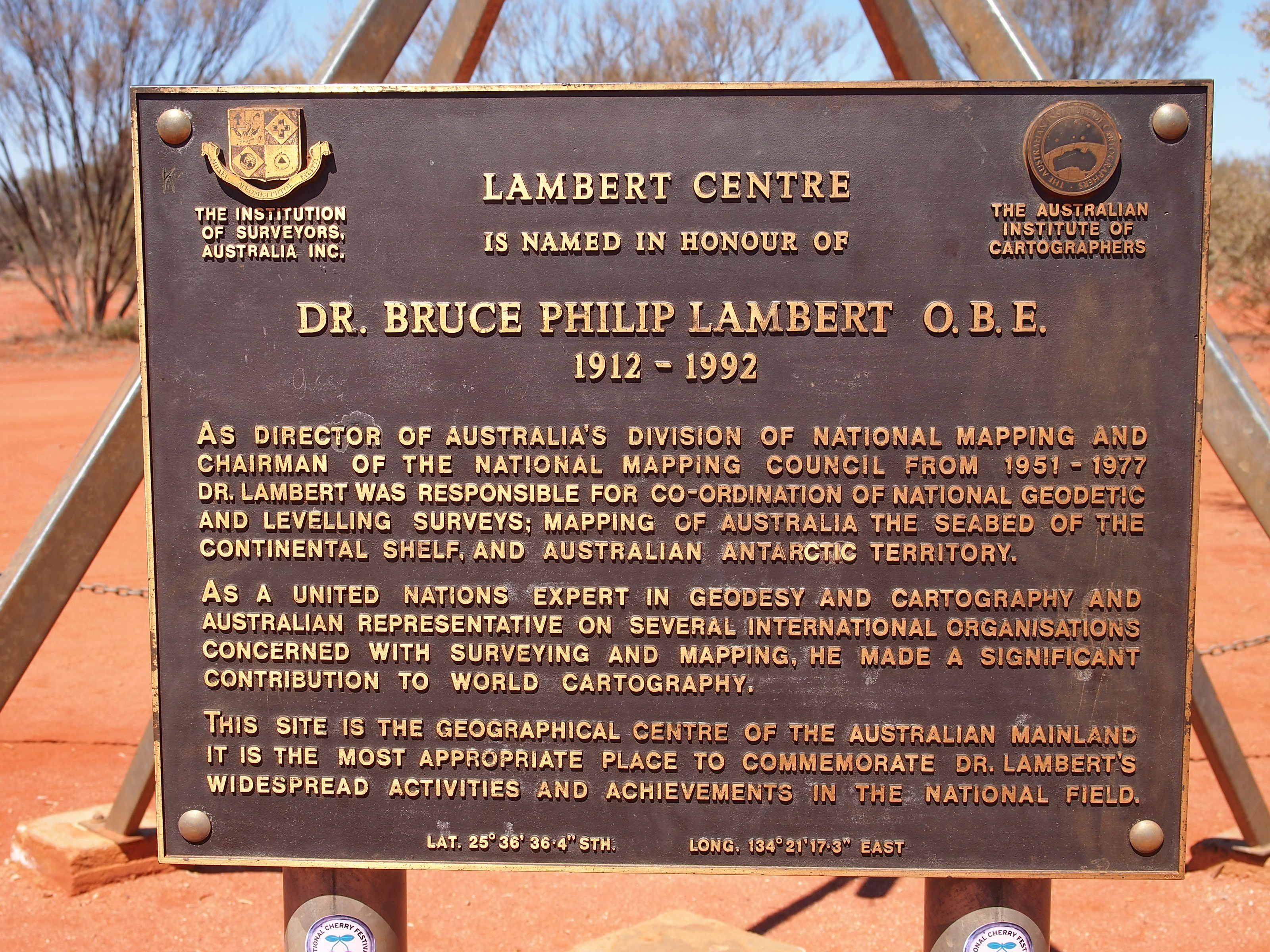 Plaque at the Lambert Centre, one of the geographical centres of Australia